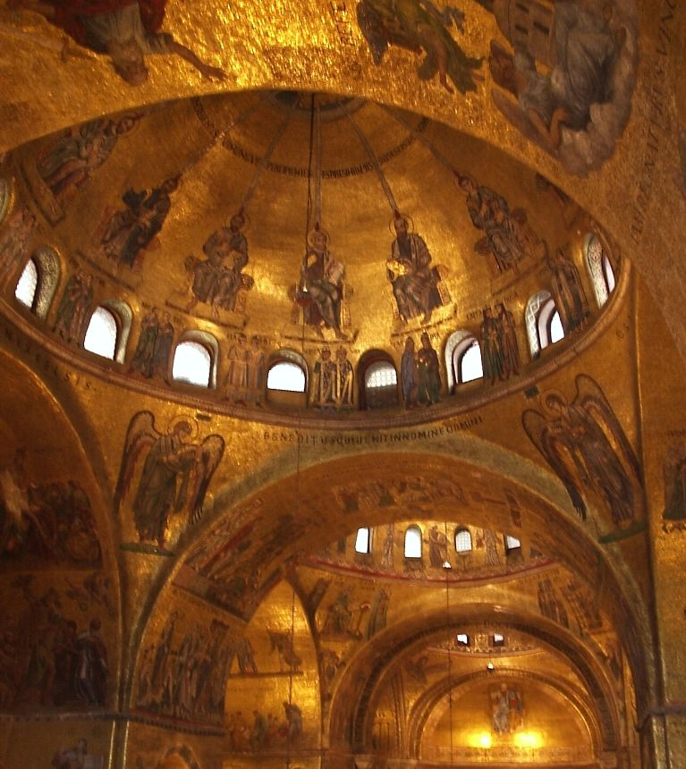 Interior of St. Mark's Basilica